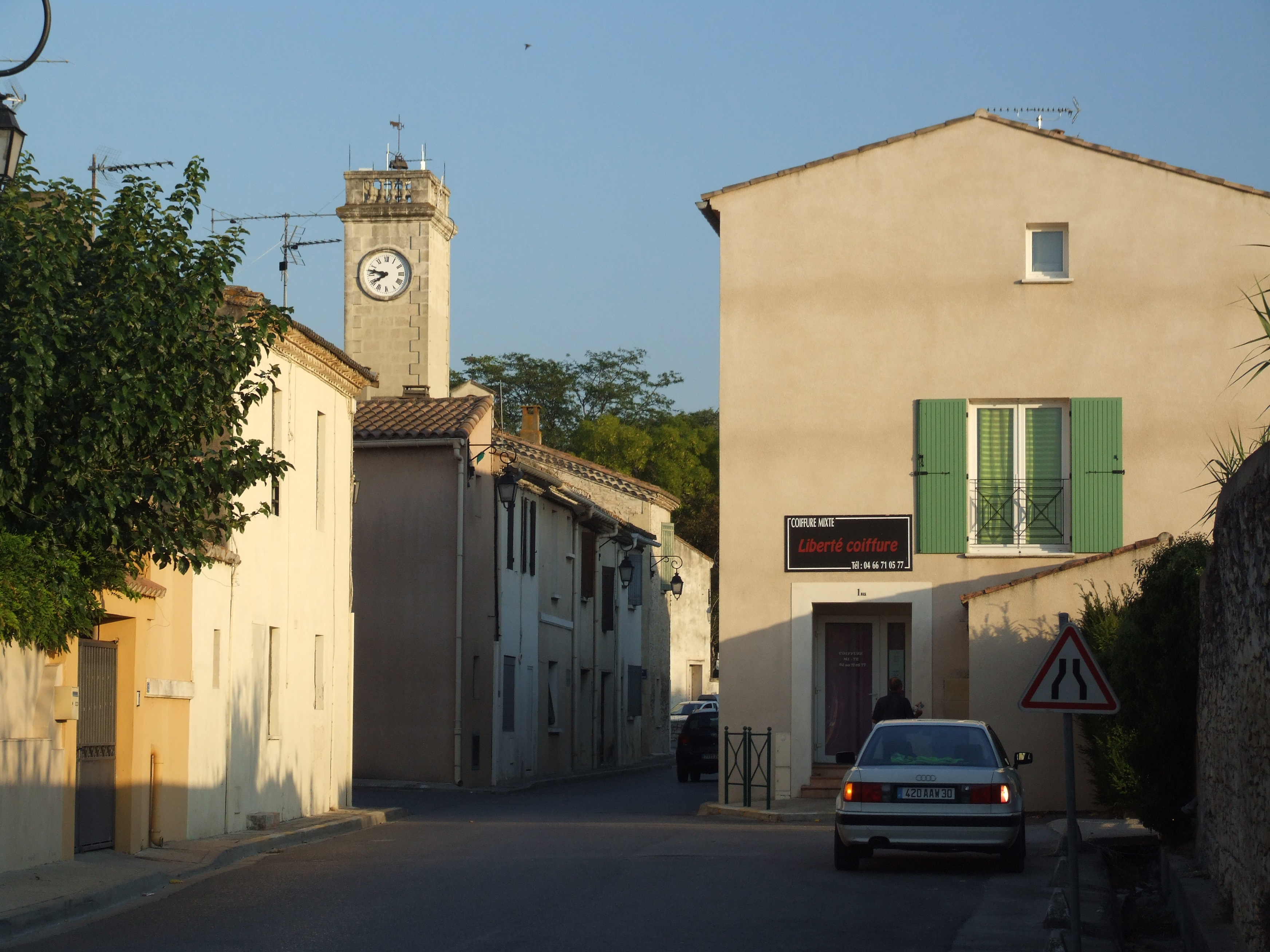 Aubord is a commune, situated on the D14 in the Petit Camargues, in the departement of Gard in the region Languedoc-Roussillon in southern France. Its post code is F30620 and INSEE 30020.